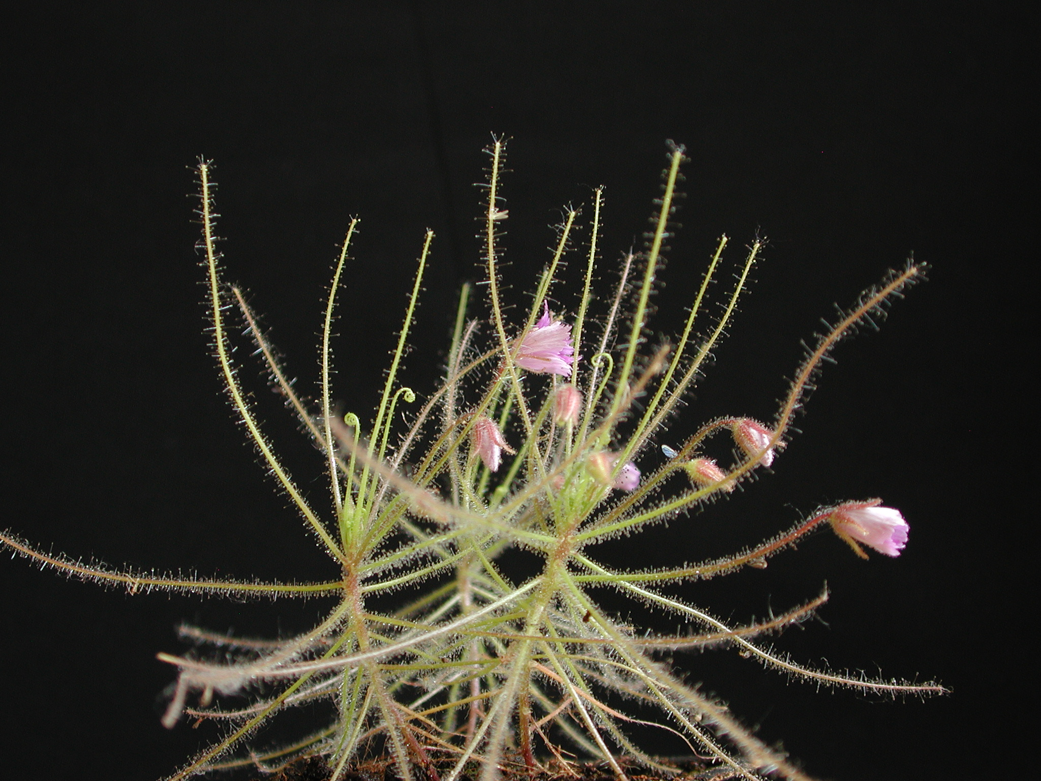 Byblis filifolia growing in culture